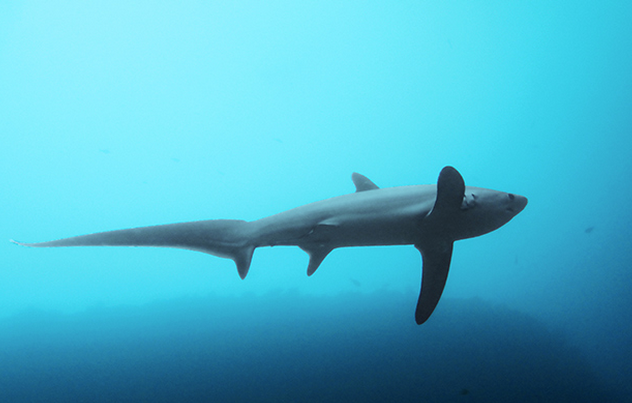 See Thresher Sharks in the early mornings at Monad Shoal, Philippines